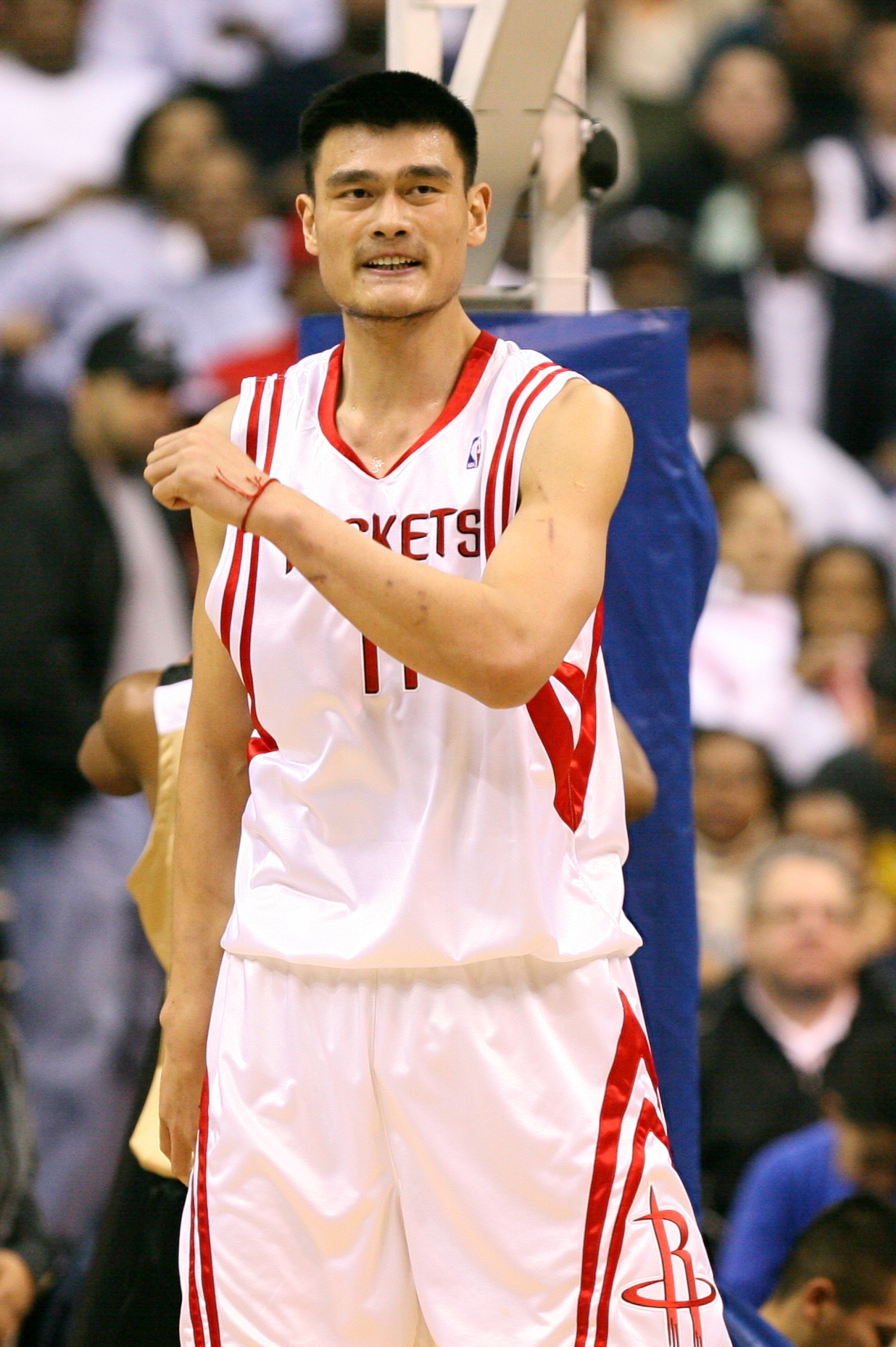 Yao Ming playing against the Washington Wizards